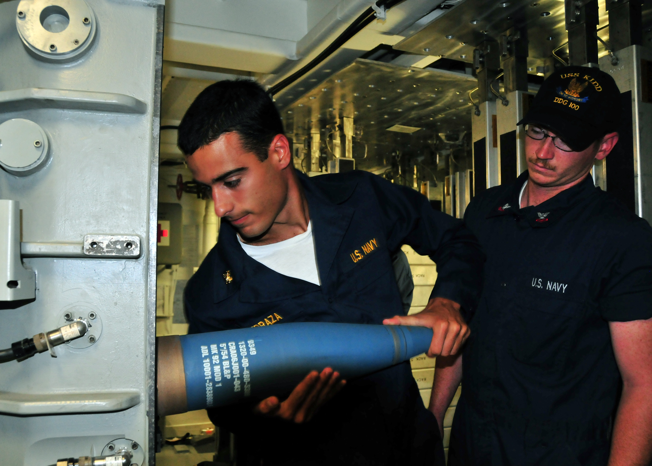 PACIFIC OCEAN (July 30, 2008) Midshipman 3rd Class Francis Pedraza, left, helps load 5-inch rounds into the MK 45 5-in gun mount under the guidance of Gunner's Mate 2nd Class Richard Slade aboard the guided-missile destroyer USS Kidd (DDG 100). Sixteen midshipmen spent 48 hours aboard Kidd while participating in Career Orientation and Training for Midshipmen. (U.S. Navy photo by Ensign Alexis F. Steele/Released)